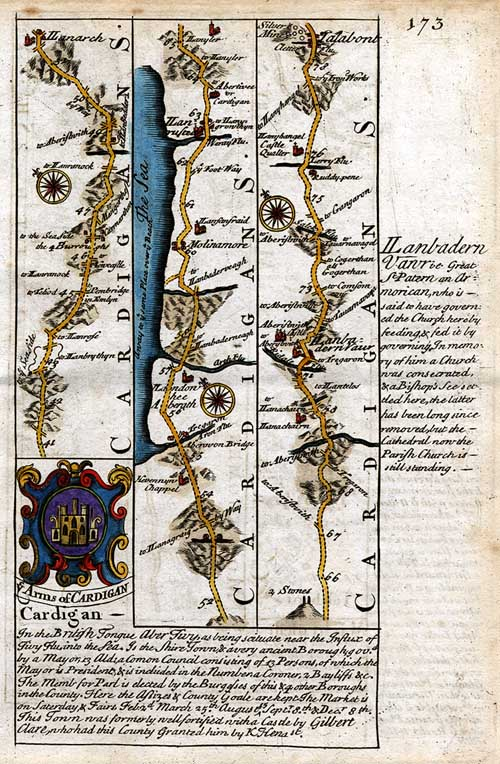 Emanuel Bowen (1714–1767) Alternative namesEmanuel BowenDescription British cartographer Date of birth/death17141767Work locationLondonAuthority control VIAF: 100334929 LCCN: n80069078 GND: 174899327 BnF: cb15327049t ISNI: 0000 0001 2145 3736 WorldCat Cardigan